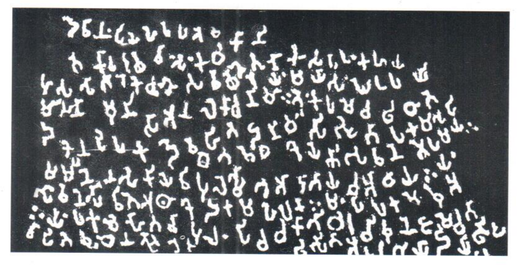 Ashoka's stone edict from Yerragudi believed to be from 257 BCE.